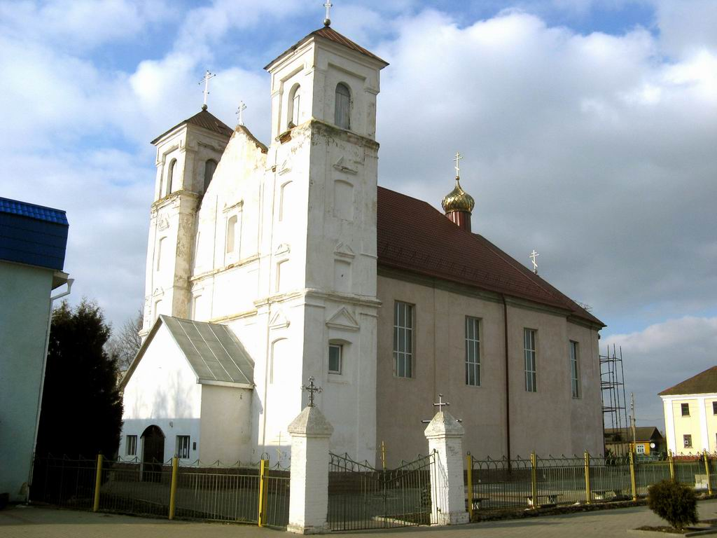 So we came up to the former Church of the Annunciation of the Blessed Virgin Mary Dominican Convent - baroque architecture monument (1683). [...] Once again, let's look at Resurrection Church